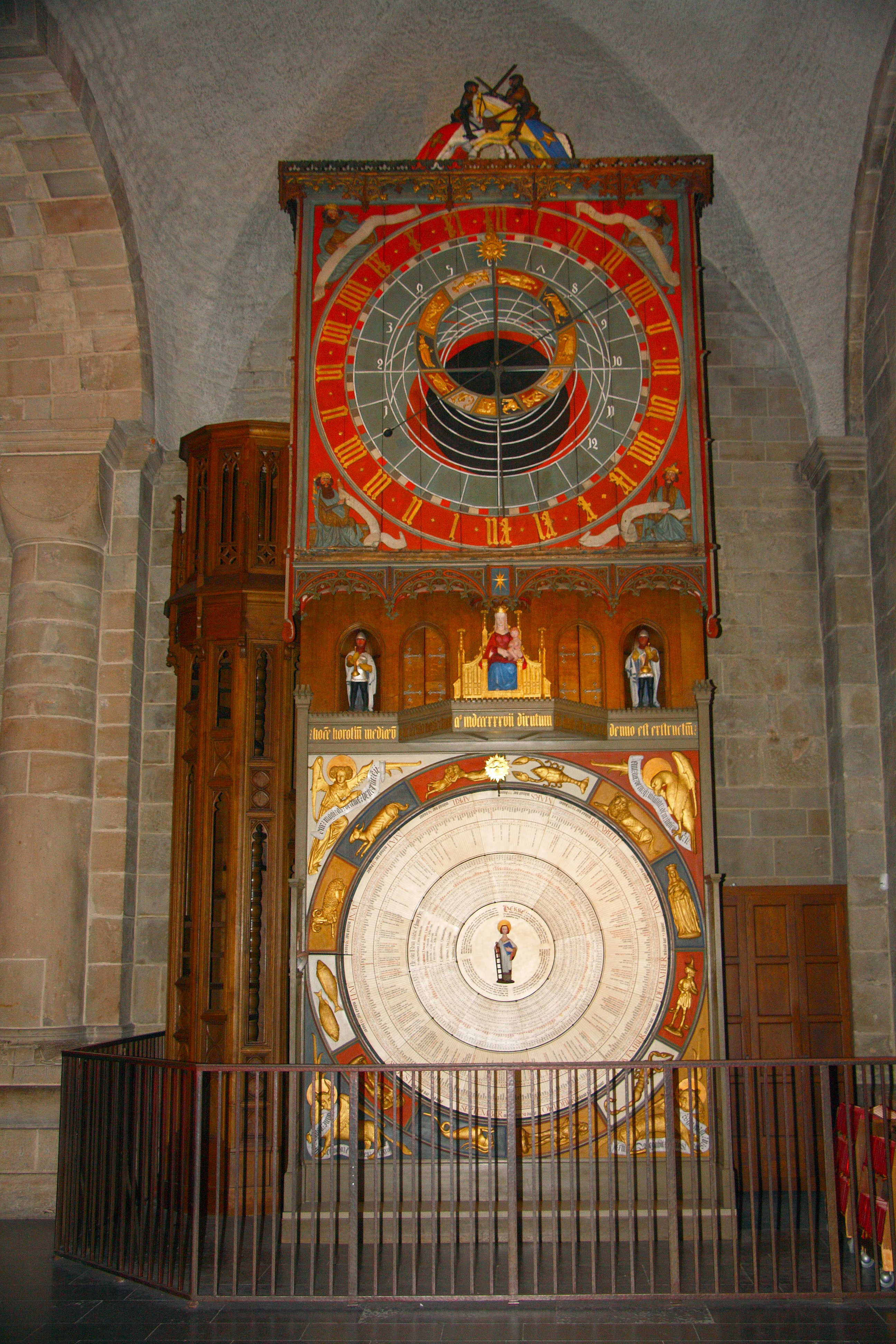 The astronomical clock at Lund´s cathedral.